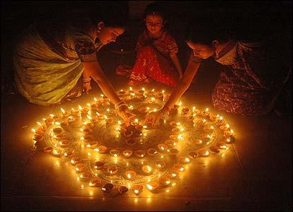 Diwali festival (celebrated by Hindus all over the world). Shown here is the arrangement of diyas on Diwali night.